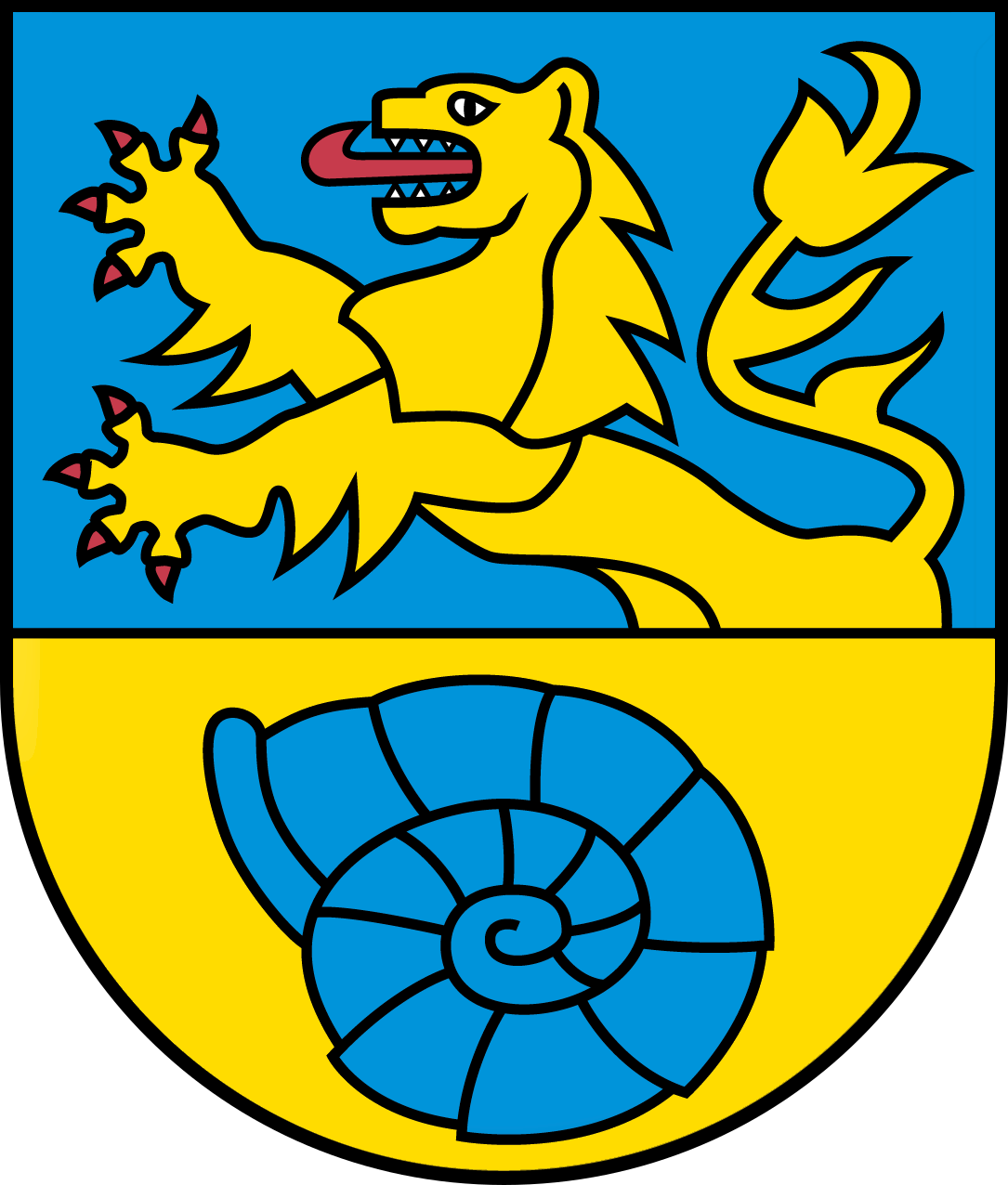 adopted by the municipal council 25 March 1976, granted 8 June 1976